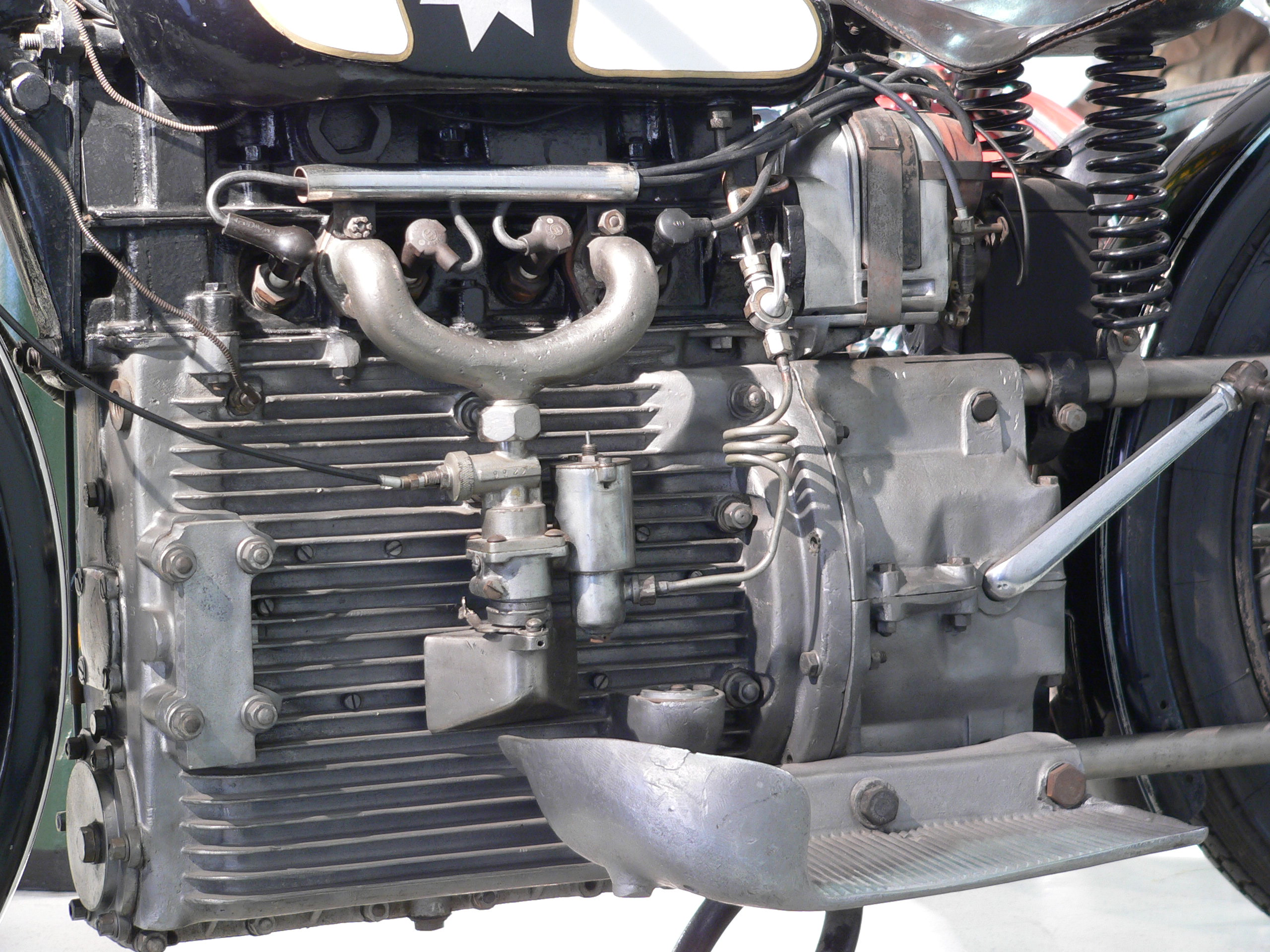 Engine of the motorbike "Windhoff" (1928) at the Deutsches Zweirad- und NSU-Museum